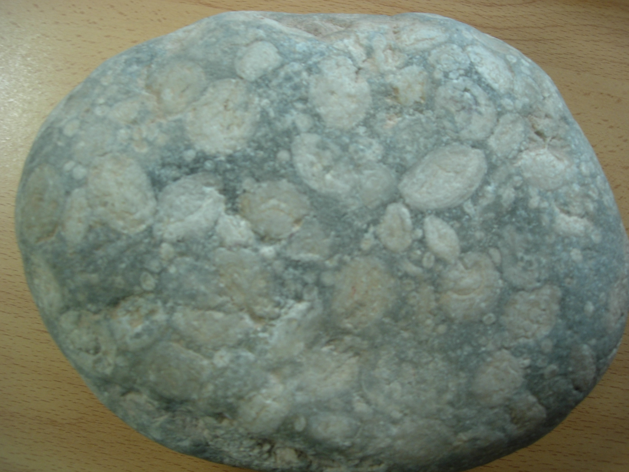 Rock with fossils of Nummulites. Of the Paleocene, Eocene, and/or Oligocene epochs, in the Paleogene Period, of the Cenozoic Era.